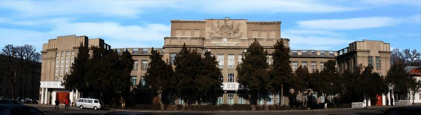 American University of Central Asia (Boris Pilipenko, 2005)